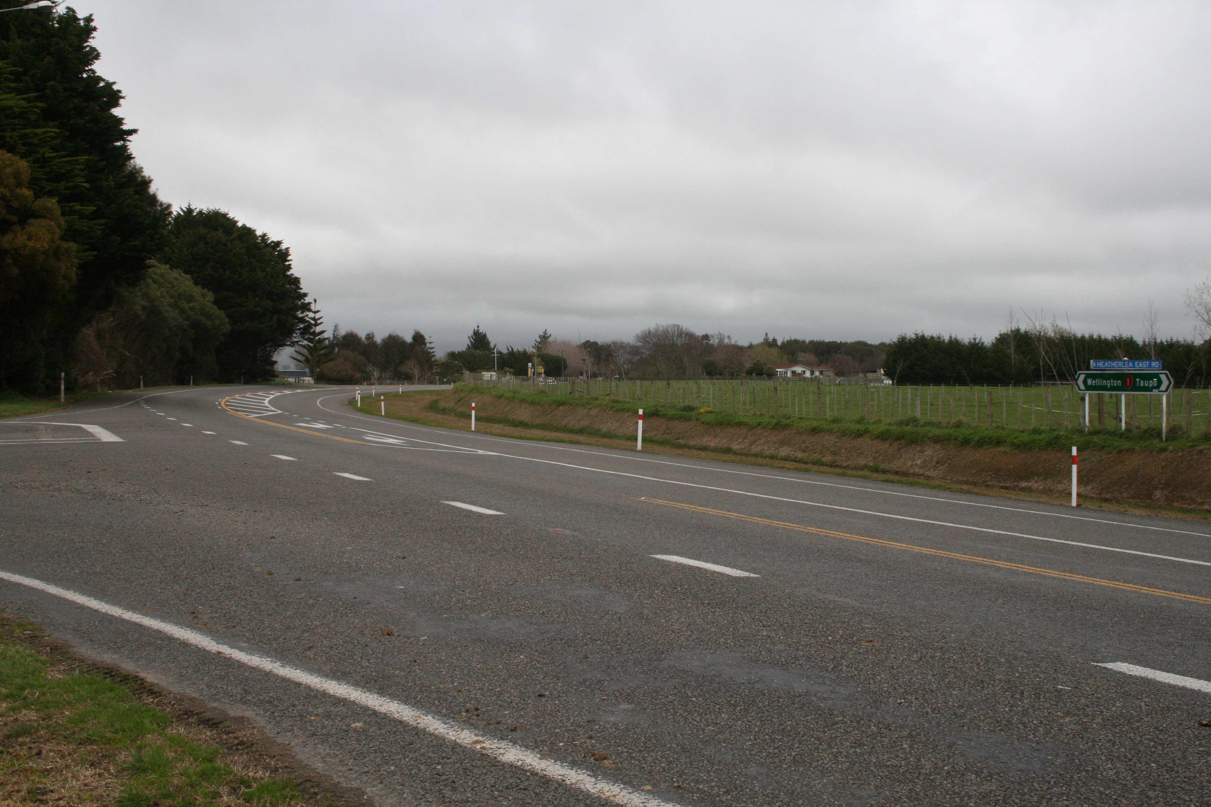 New Zealand State Highway 1 north of Levin, New Zealand.